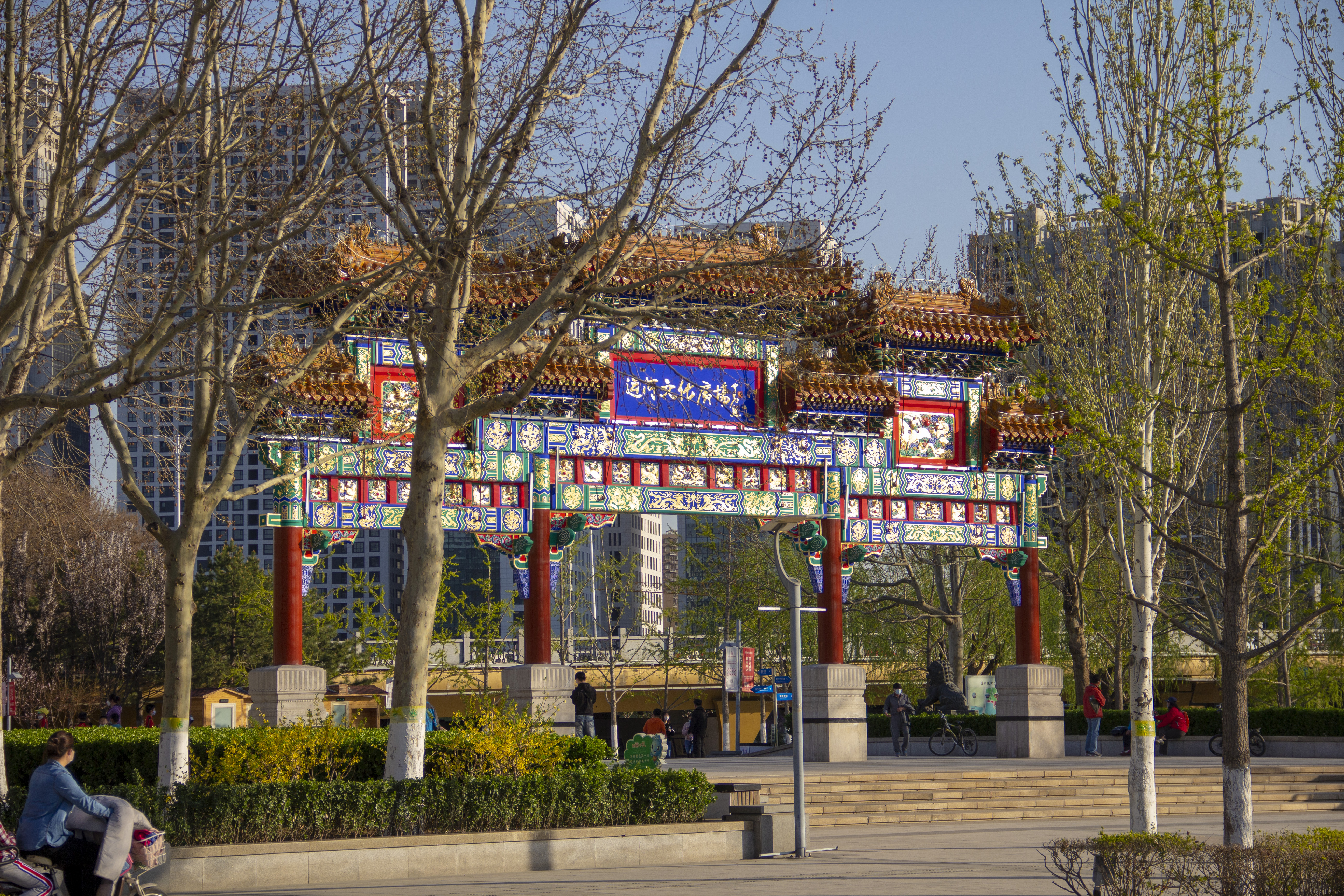 arch of Tongzhou Grand Canal Park